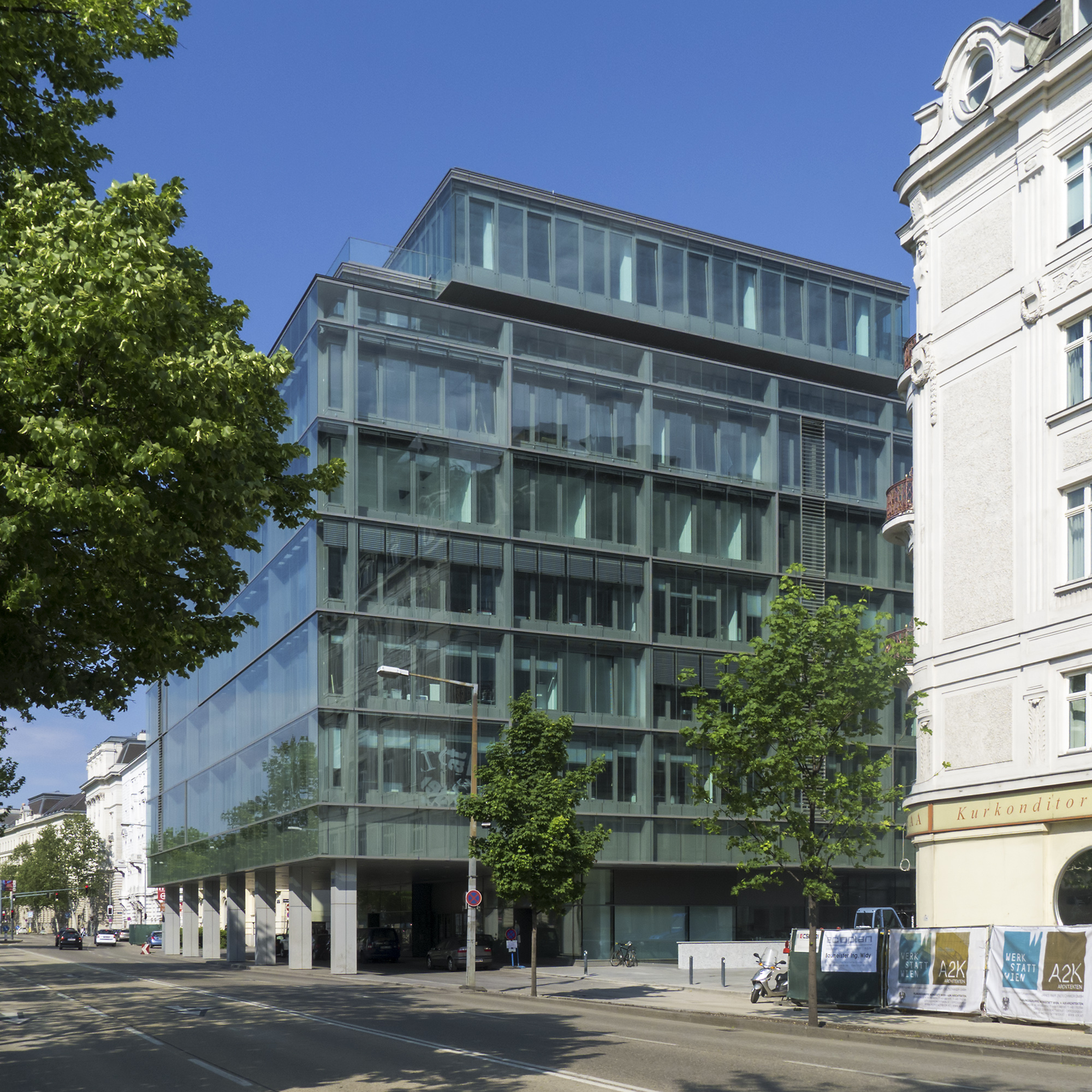 Office building Vz13 in Vienna 3